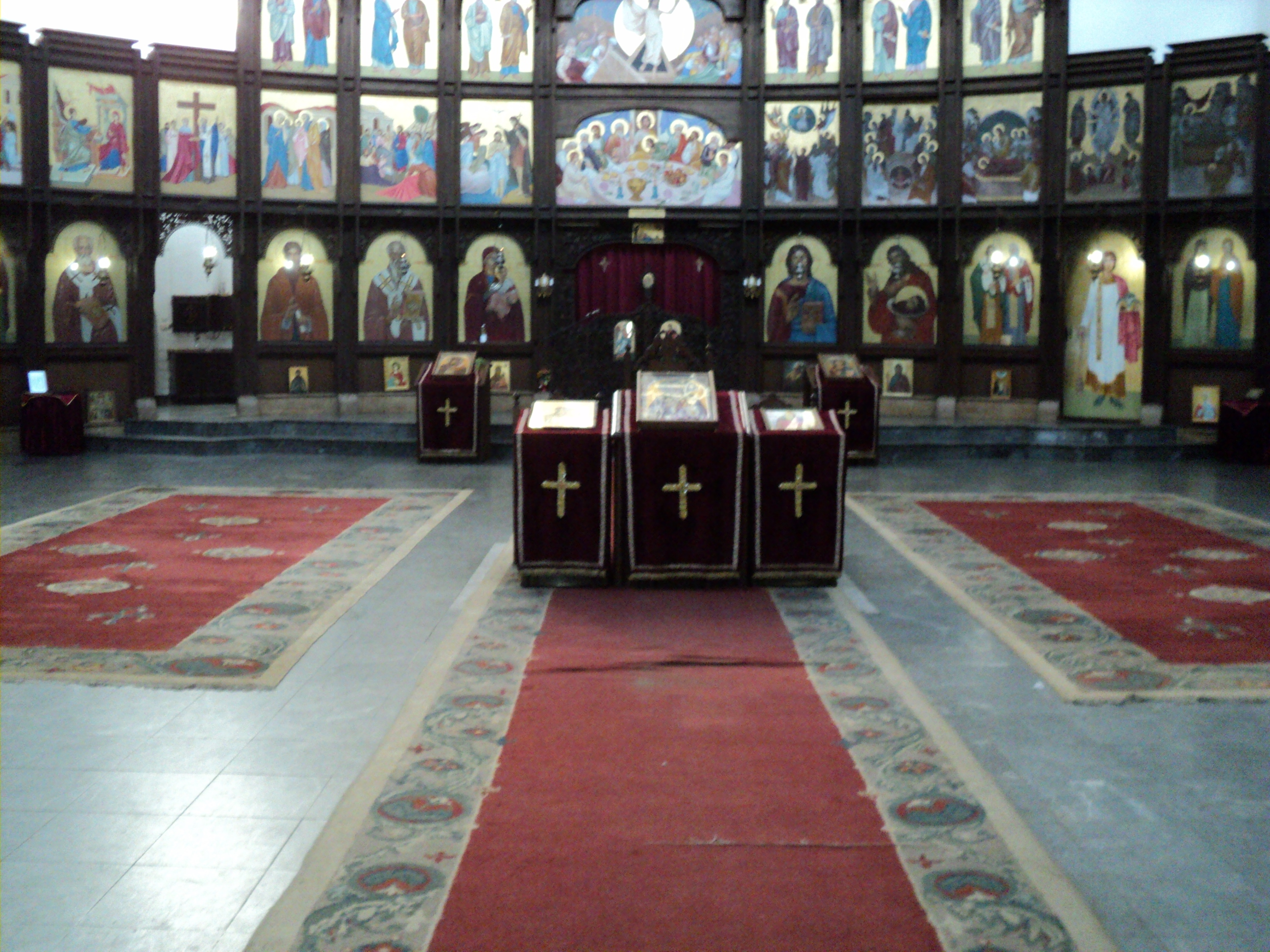 Church of St. Clement of Ohrid in Skopje, Macedonia